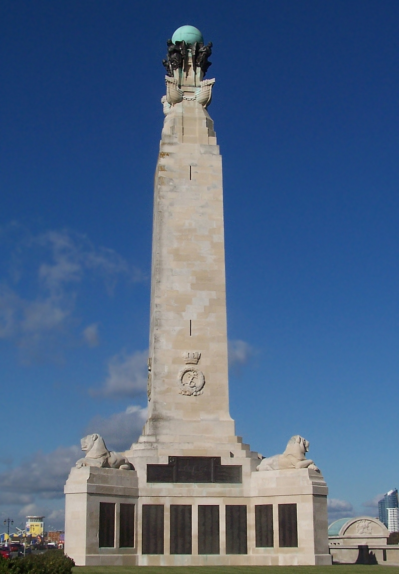 Naval Memorial in Portsmouth.